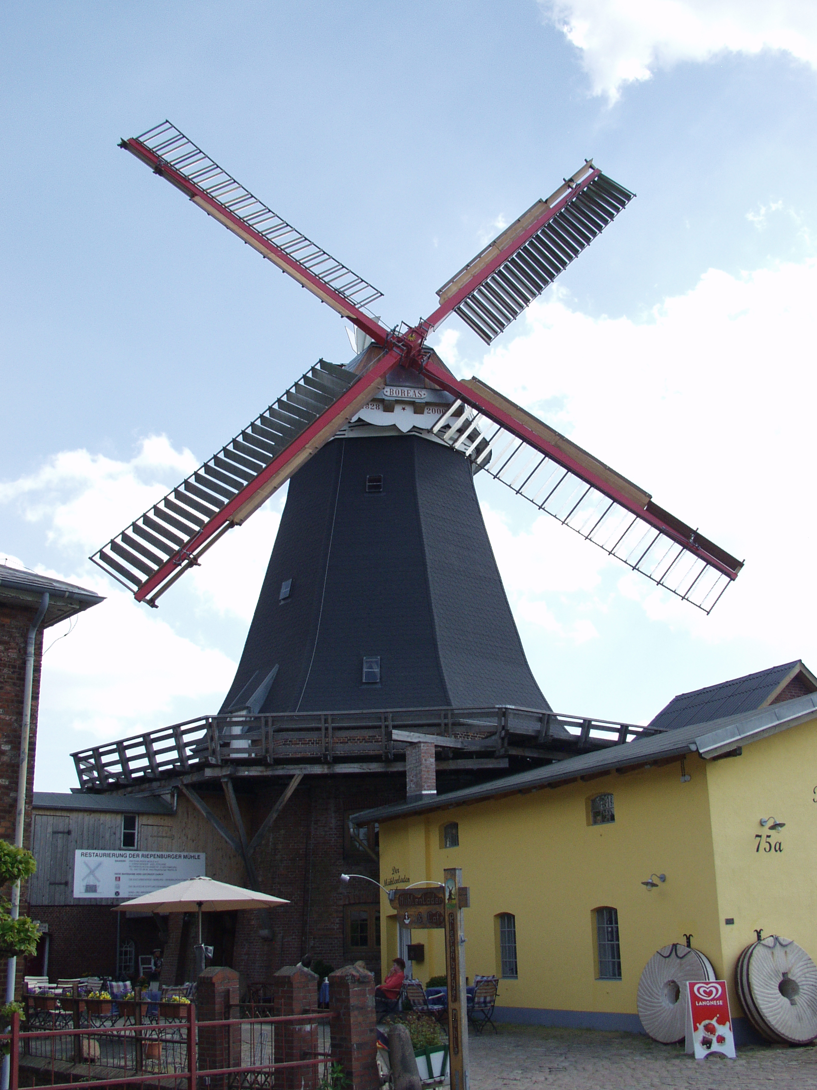 Hamburg (Kirchwerder), Germany: The Riepenburg Mill